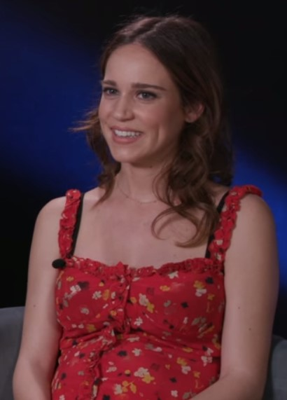 Matilda Lutz in interview for MTV in 2018